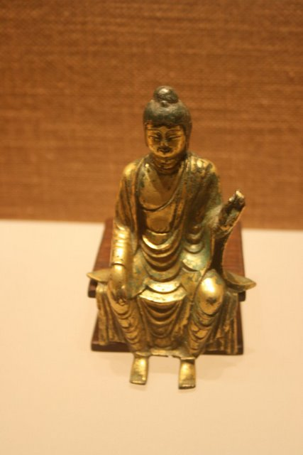 Chinese miniature gilded Buddha from the Tang Dynasty (618-907 AD).